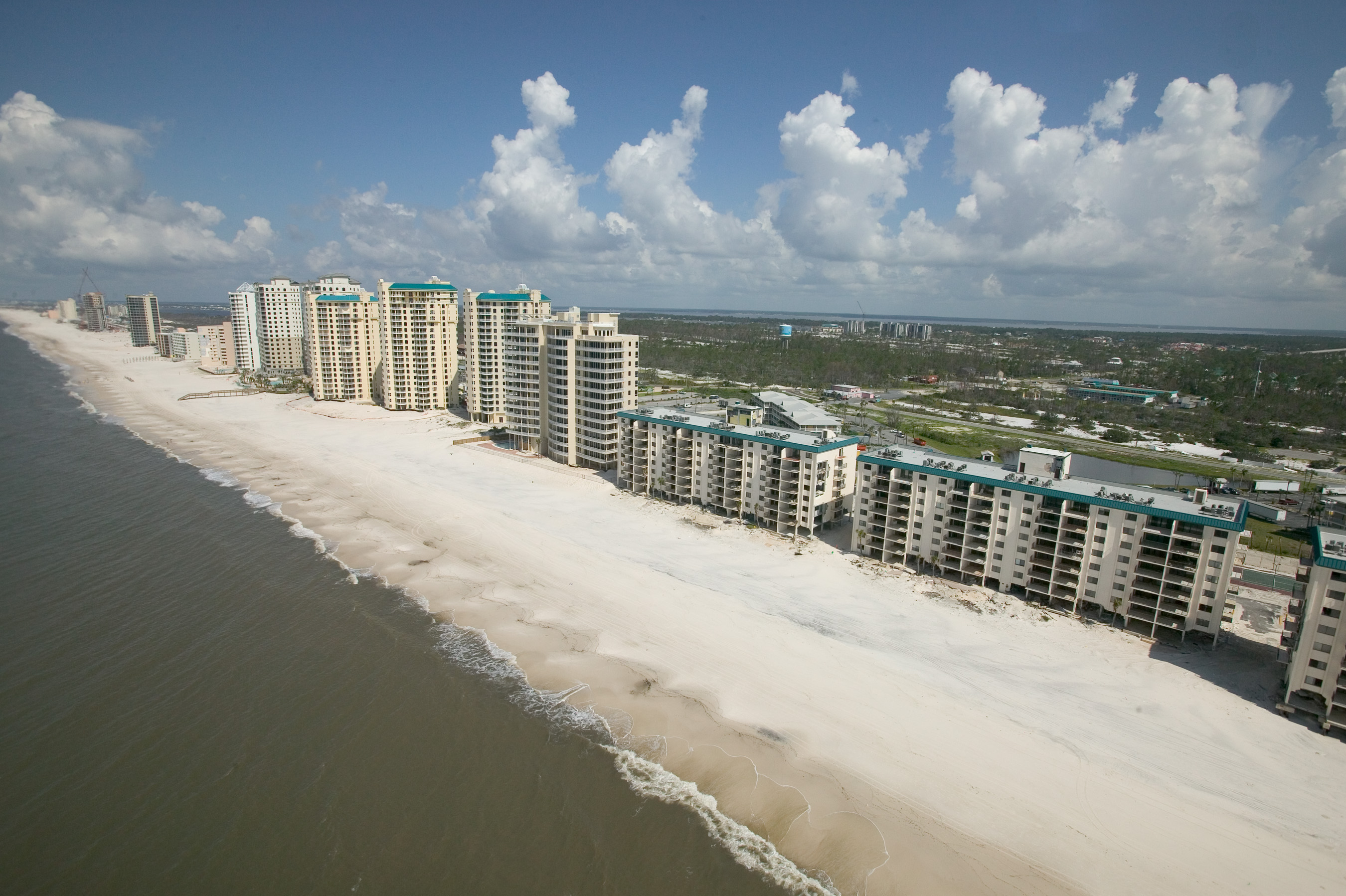 Pensacola Beach(Perdido Key, FEMA description is wrong), Fla., July 13, 2005 -- Impact of Hurricane Dennis is felt in economic damage to businesses as well as the physical damage to businesses, homes and infrastructure. FEMA photo/Andrea Booher